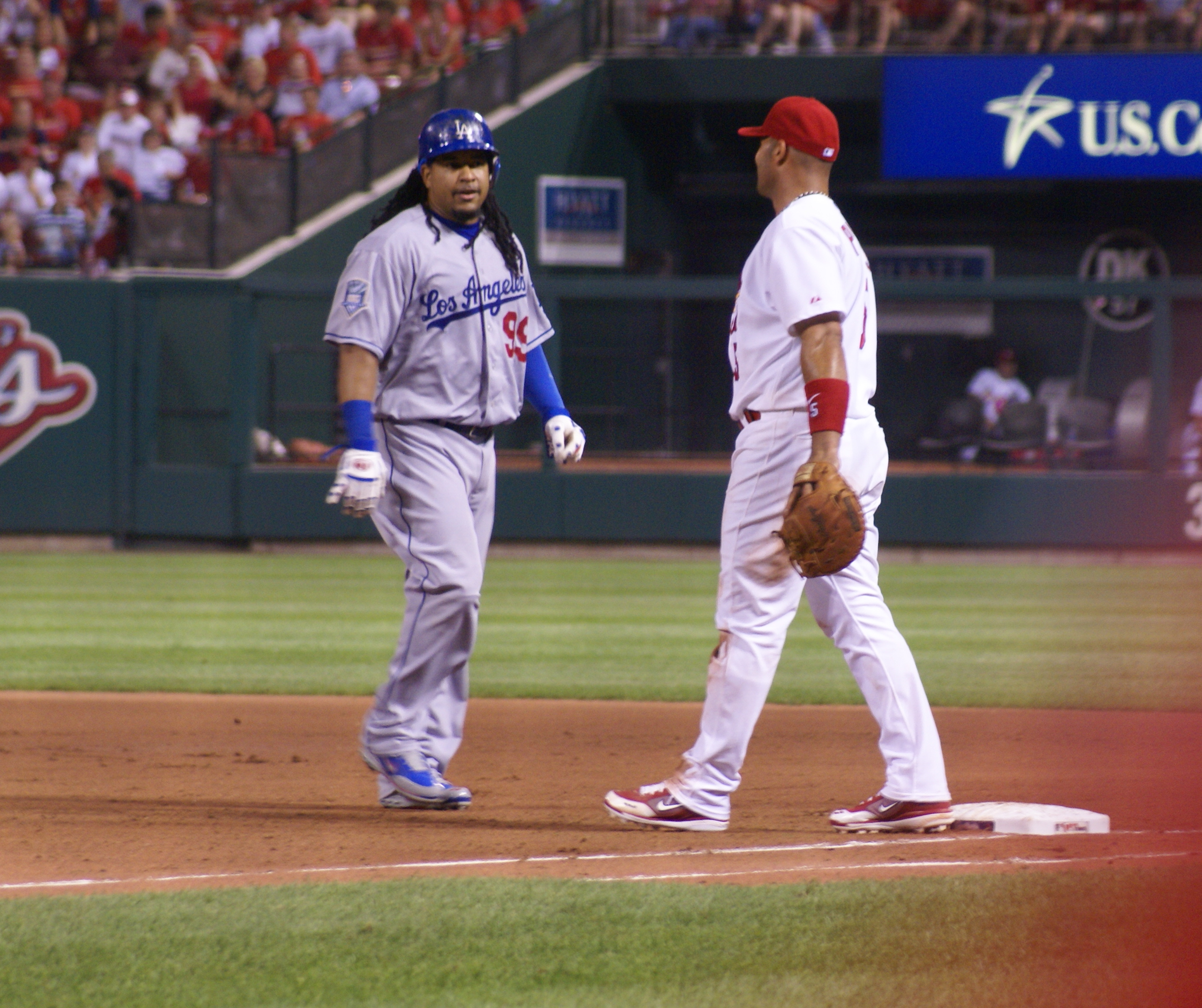 Manny Ramirez (left) and Albert Pujols on August 5, 2008